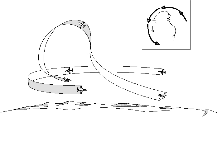 Barrel roll attack, a type of displacement roll